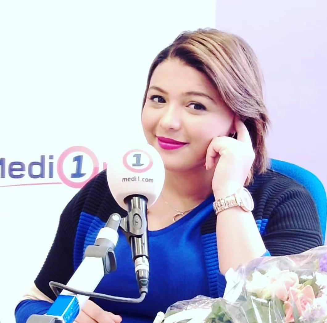 Chaimae abdelaziz in mozaik (a radio programma) on medi1 radio- 05/2018